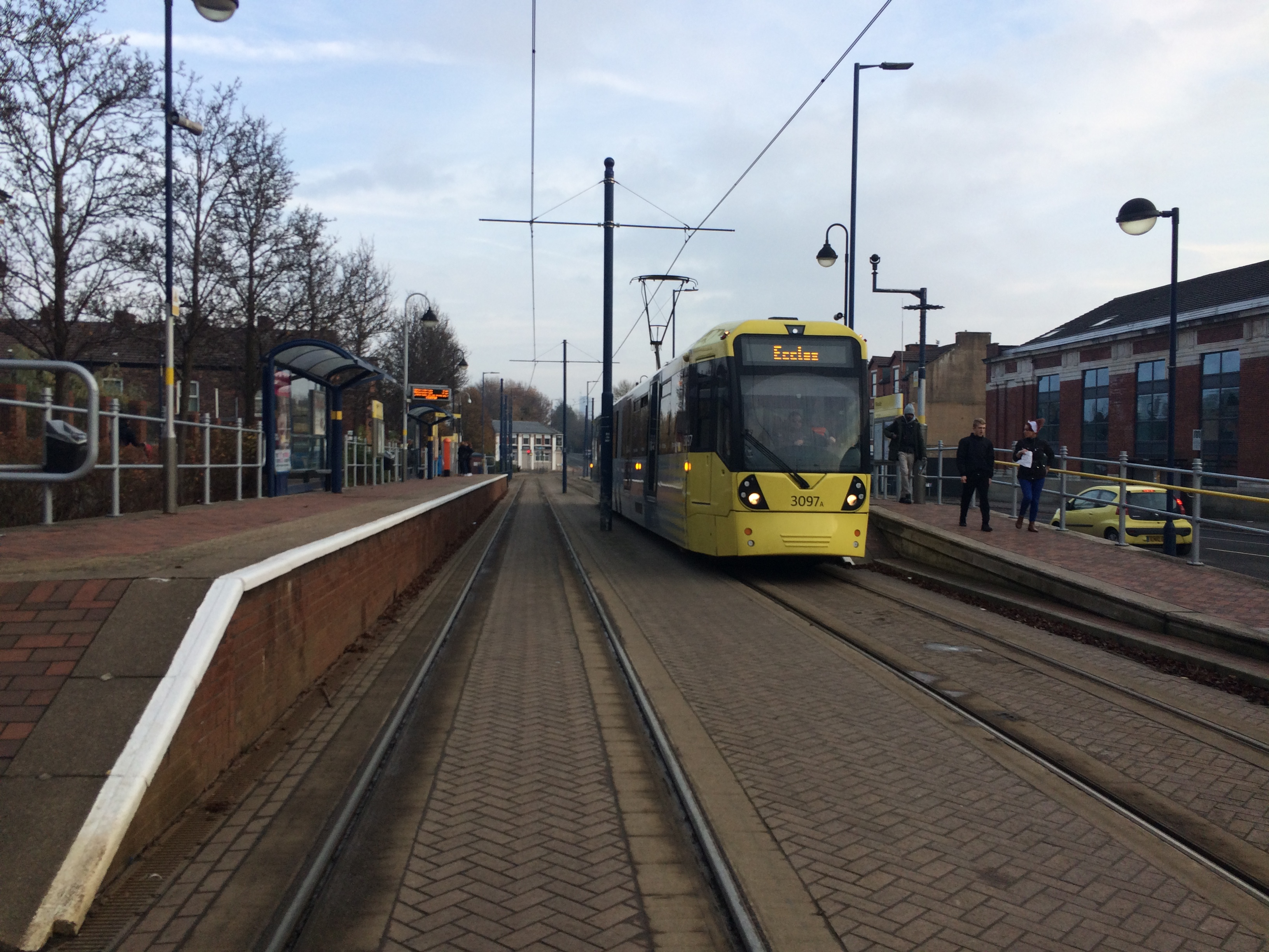 bROADWAY